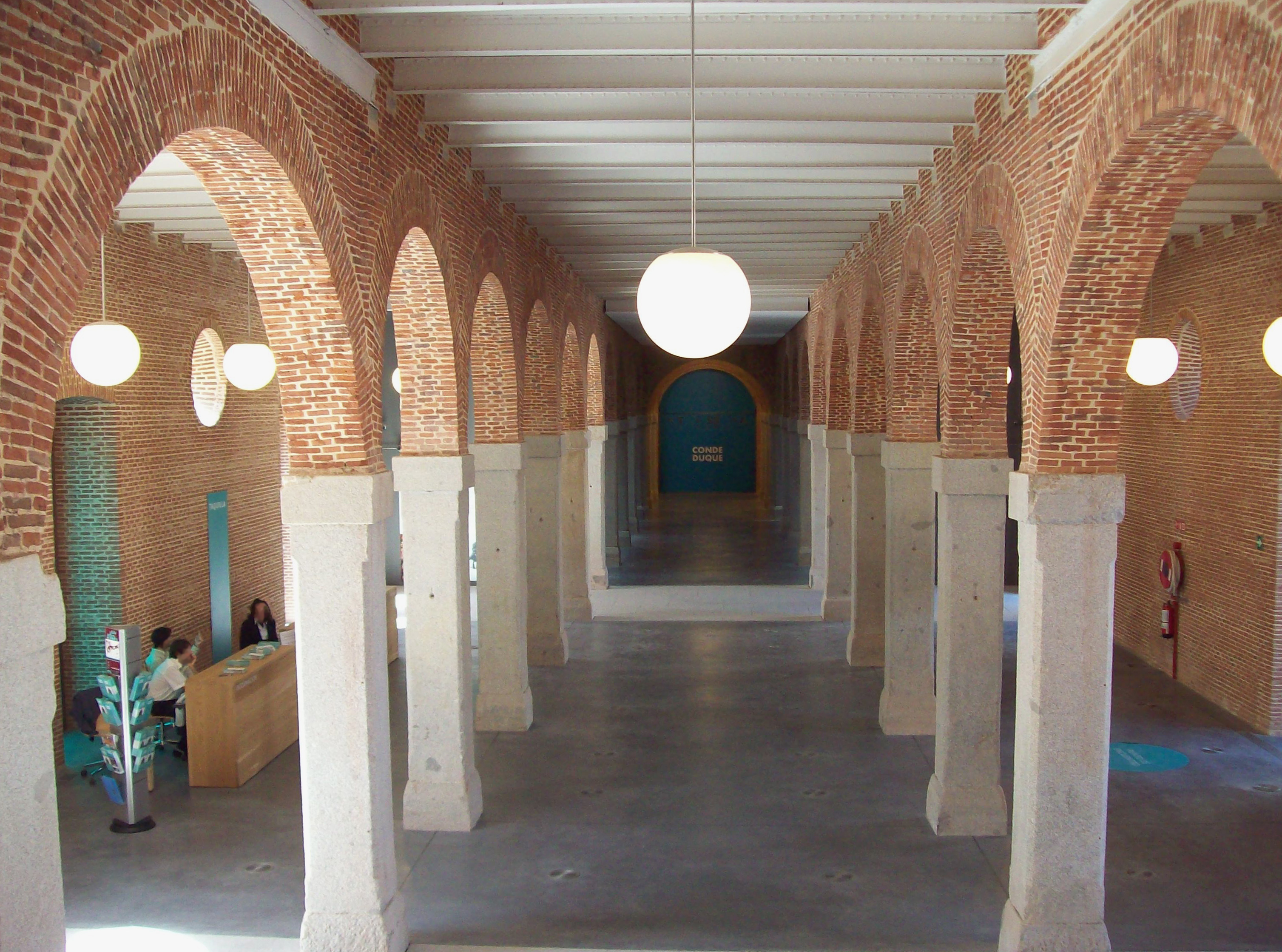 Interior of Cuartel del Conde-Duque in Madrid (Spain).